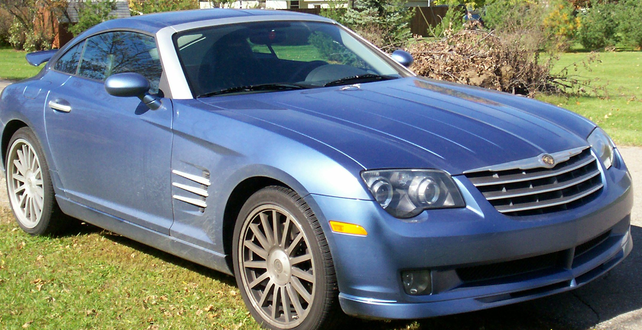 Right side photo of model year 2005 Chrysler Crossfire SRT-6 in color Aero Blue.